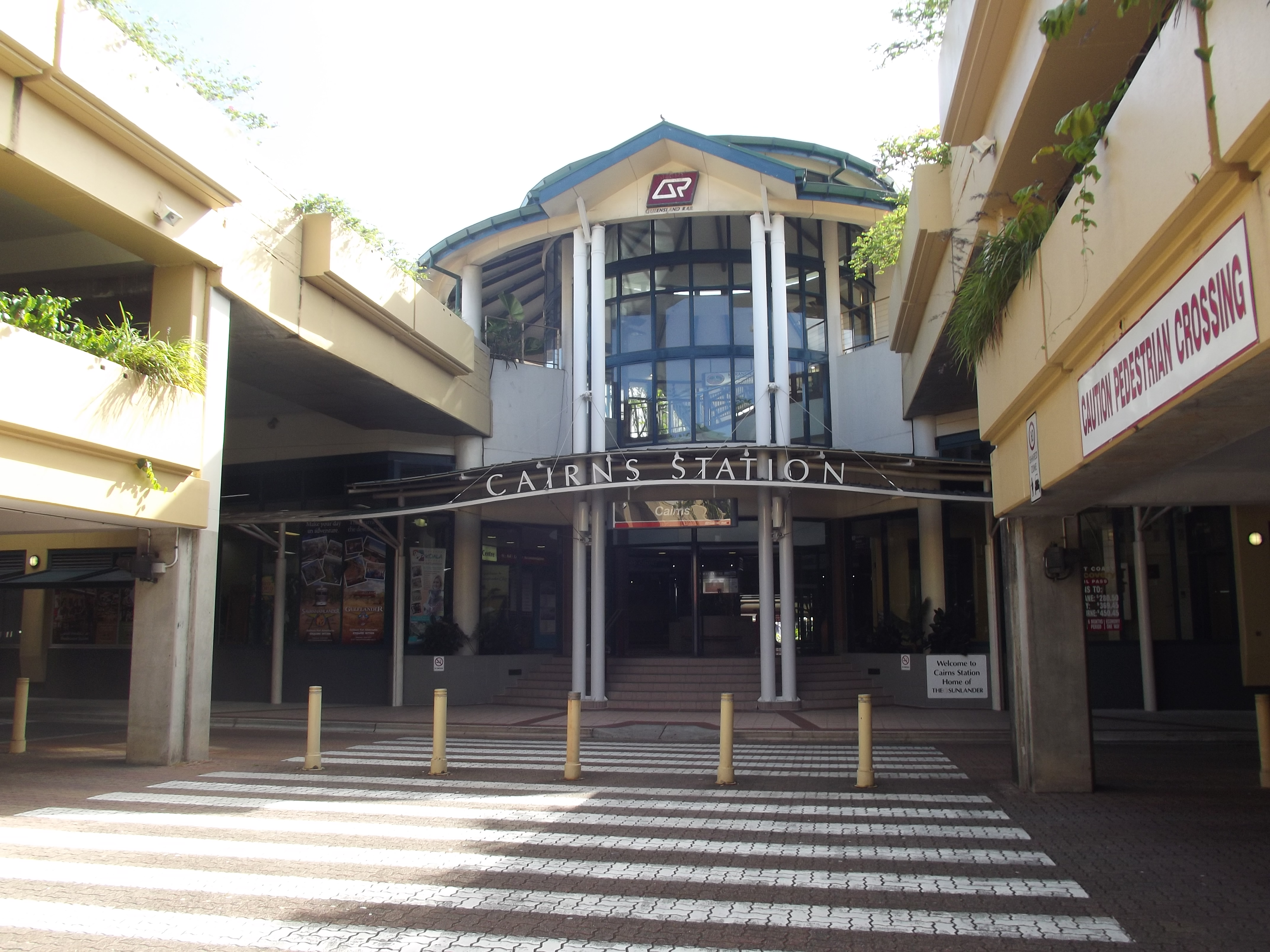 Cairns railway station, the terminus of the North Coast line. Pictured is the ground-level entrance to the station.